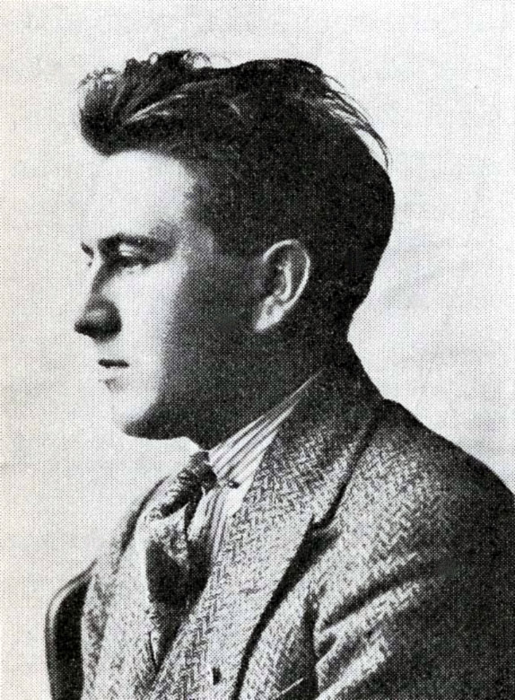 Johan Edvard Sandtrø